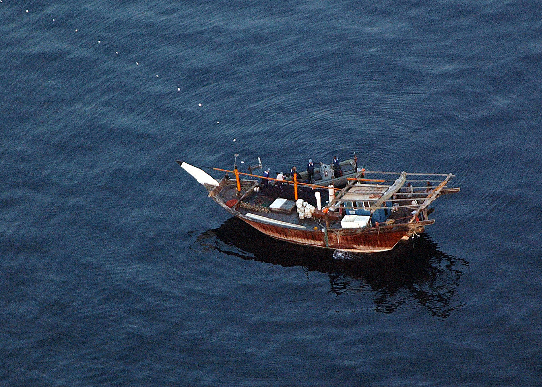 Arabian Gulf (Oct. 30, 2004) - A Visit, Board, Search and Seizure (VBSS) team, assigned to the guided missile cruiser USS Vicksburg (CG 69), boards an Iranian dhow for a Maritime Interception Operation (MIO). Vicksburg is part of the USS John F. Kennedy (CV 67) Carrier Strike Group and is currently on a regularly scheduled deployment in support of Operation Iraqi Freedom (OIF). U.S. Navy Photograph by Photographer’s Mate 2nd Class Michael Sandberg (RELEASED)